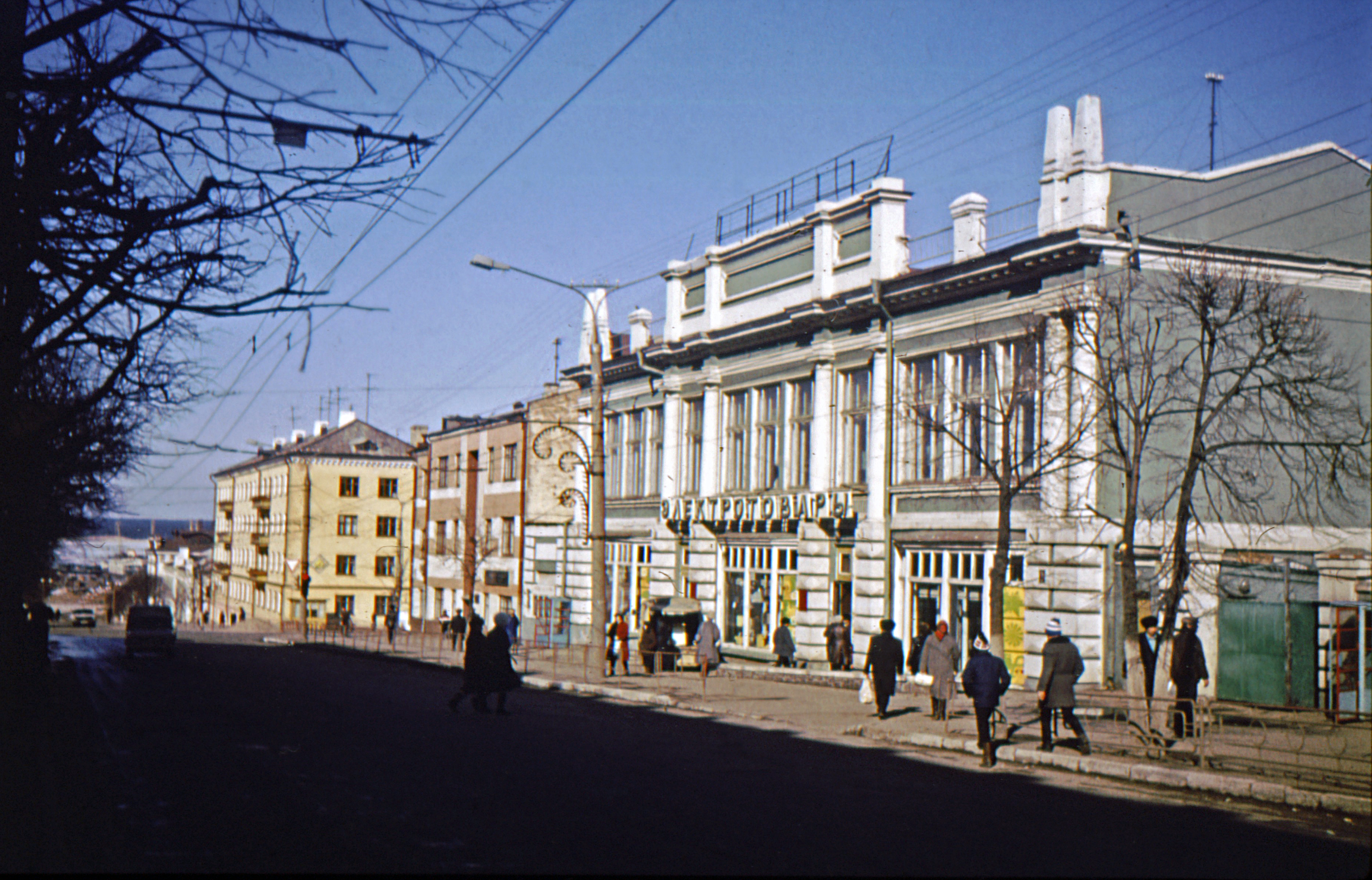 Karl Marx Street in Cheboksary, 1987